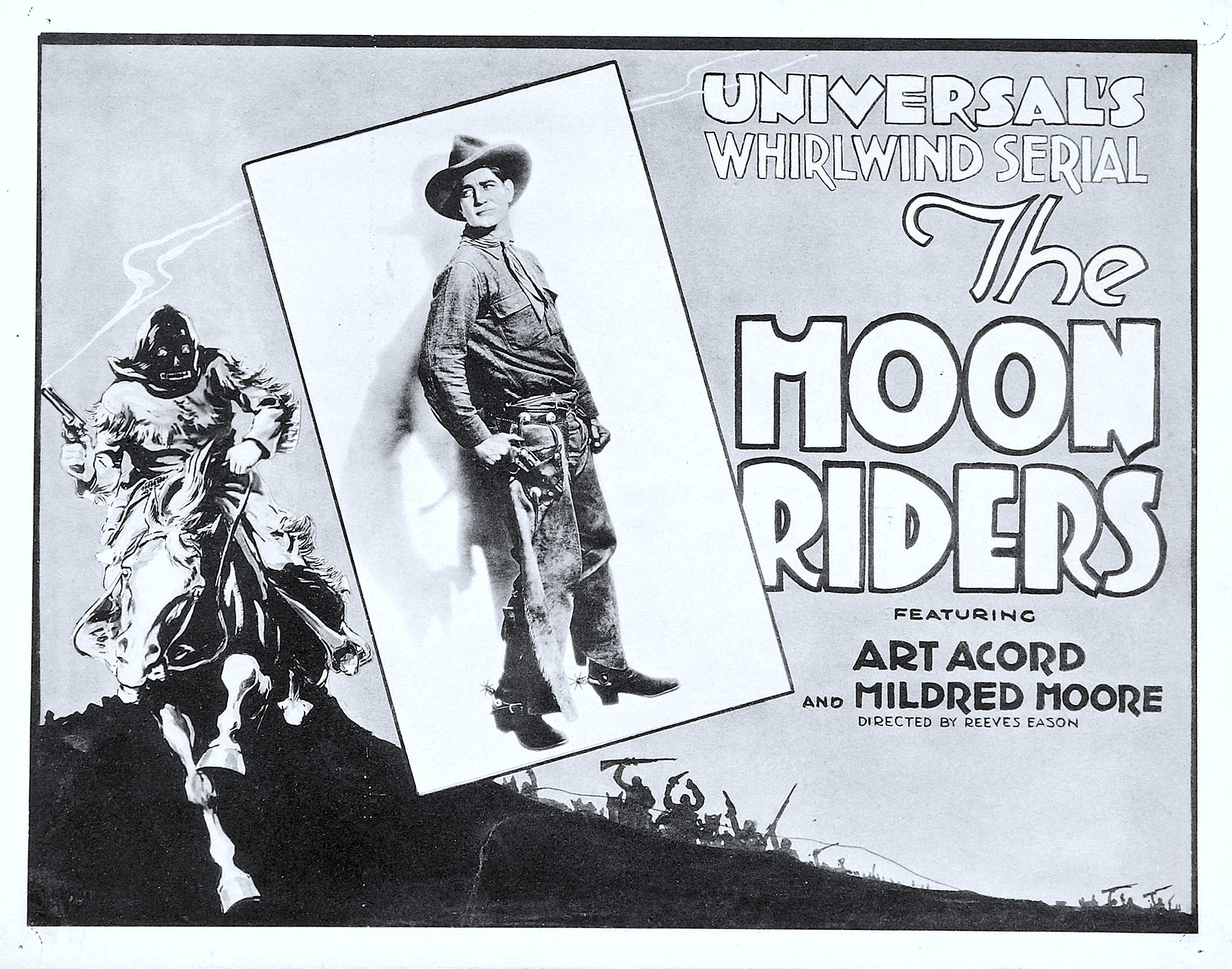 The Moon Riders was a 1920 American Western film serial directed by B. Reeves Eason and Theodore Wharton. This is a lobby card for the series.